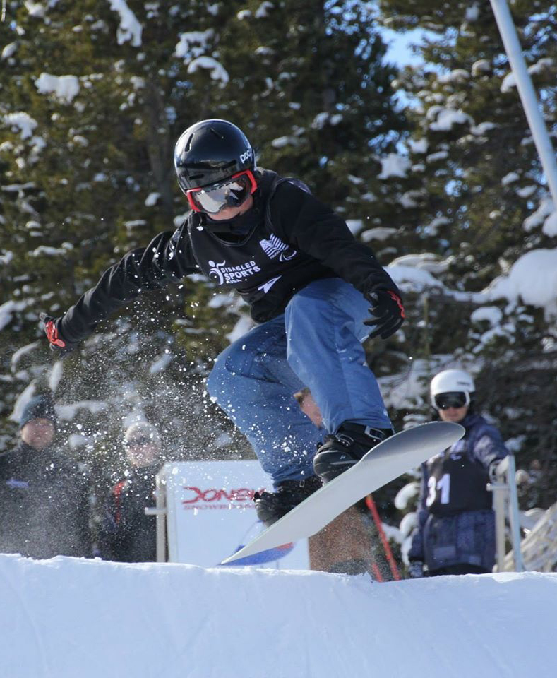 Portrait of Australian Snowboard Cross Ben Tudhope, 2014 Australian Paralympic Team Athlete